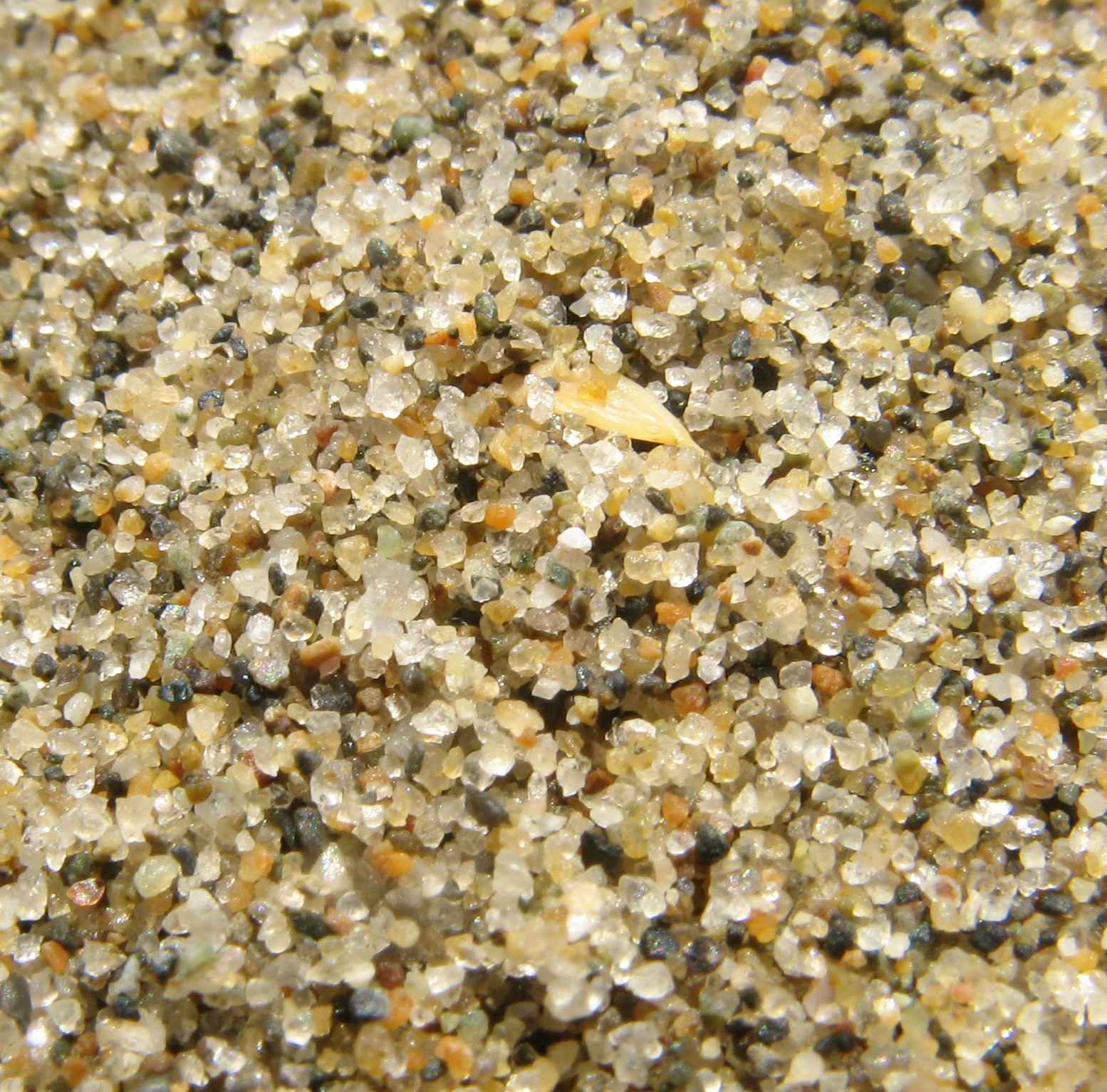 close-up of sand from Third Beach in Vancouver